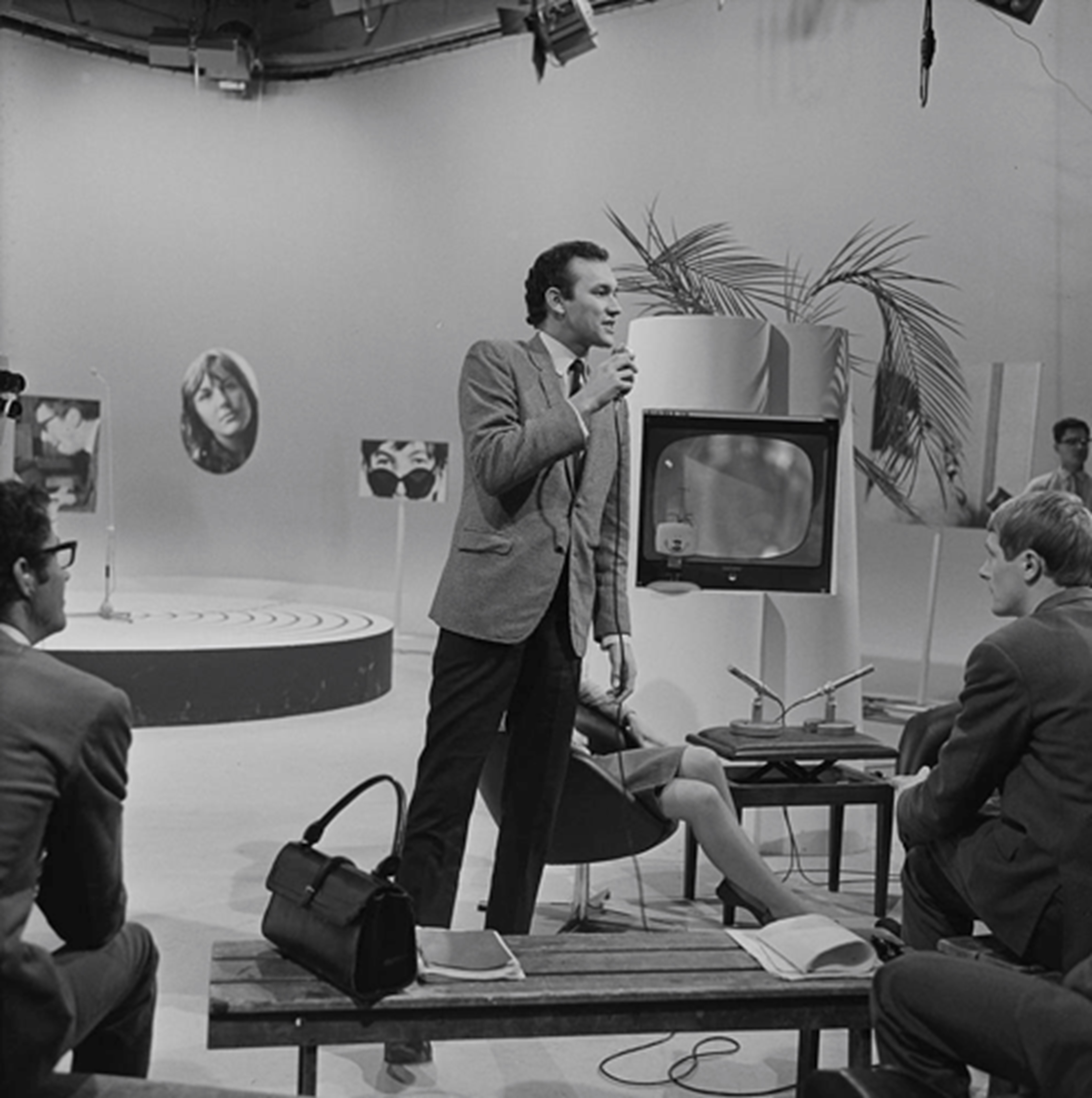 Shawn Elliott (TV-programme Fanclub, Dutch TV, 13 November 1965)